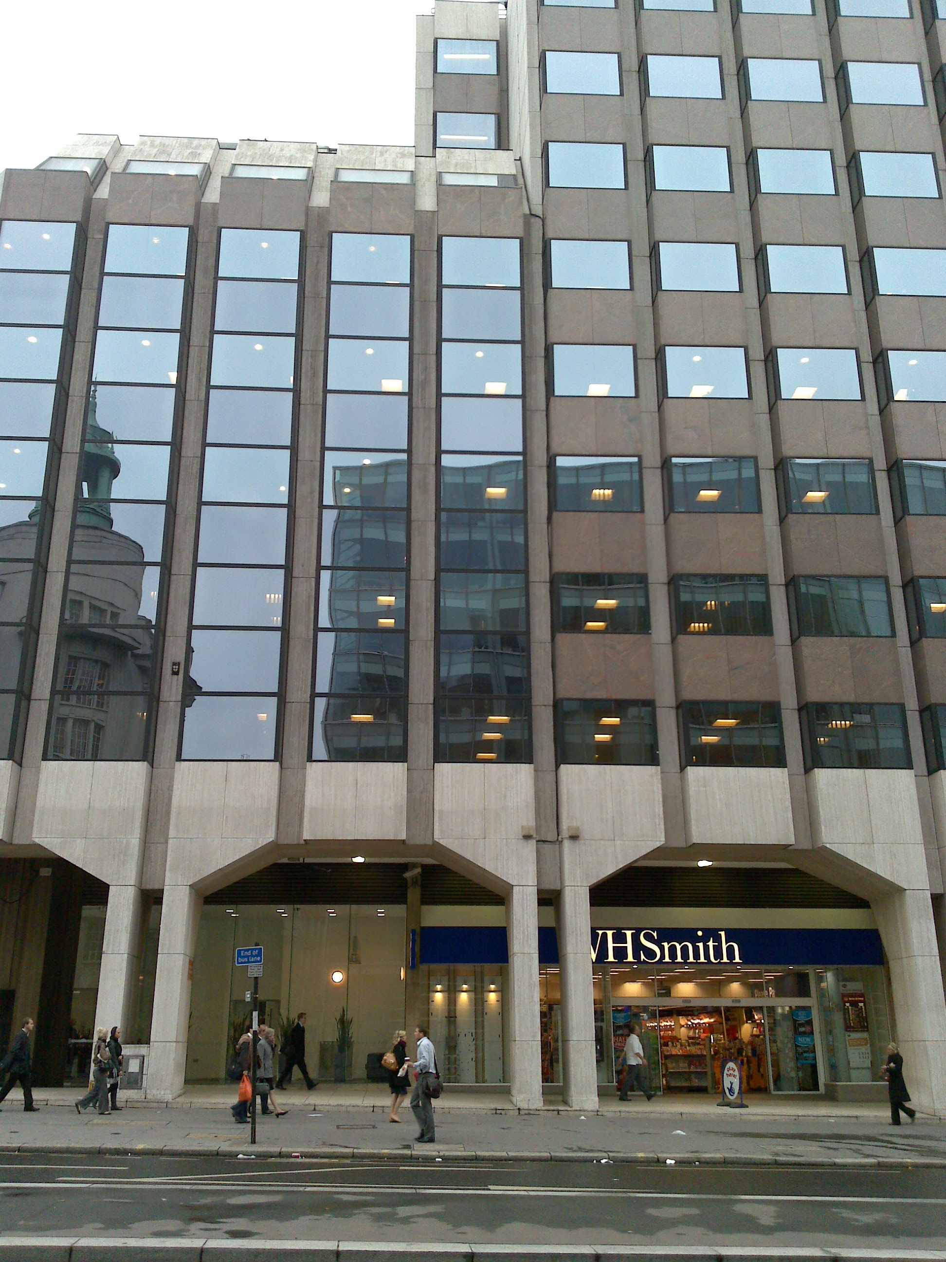 Steria office in Holborn. Site of the former department store, Gamages.